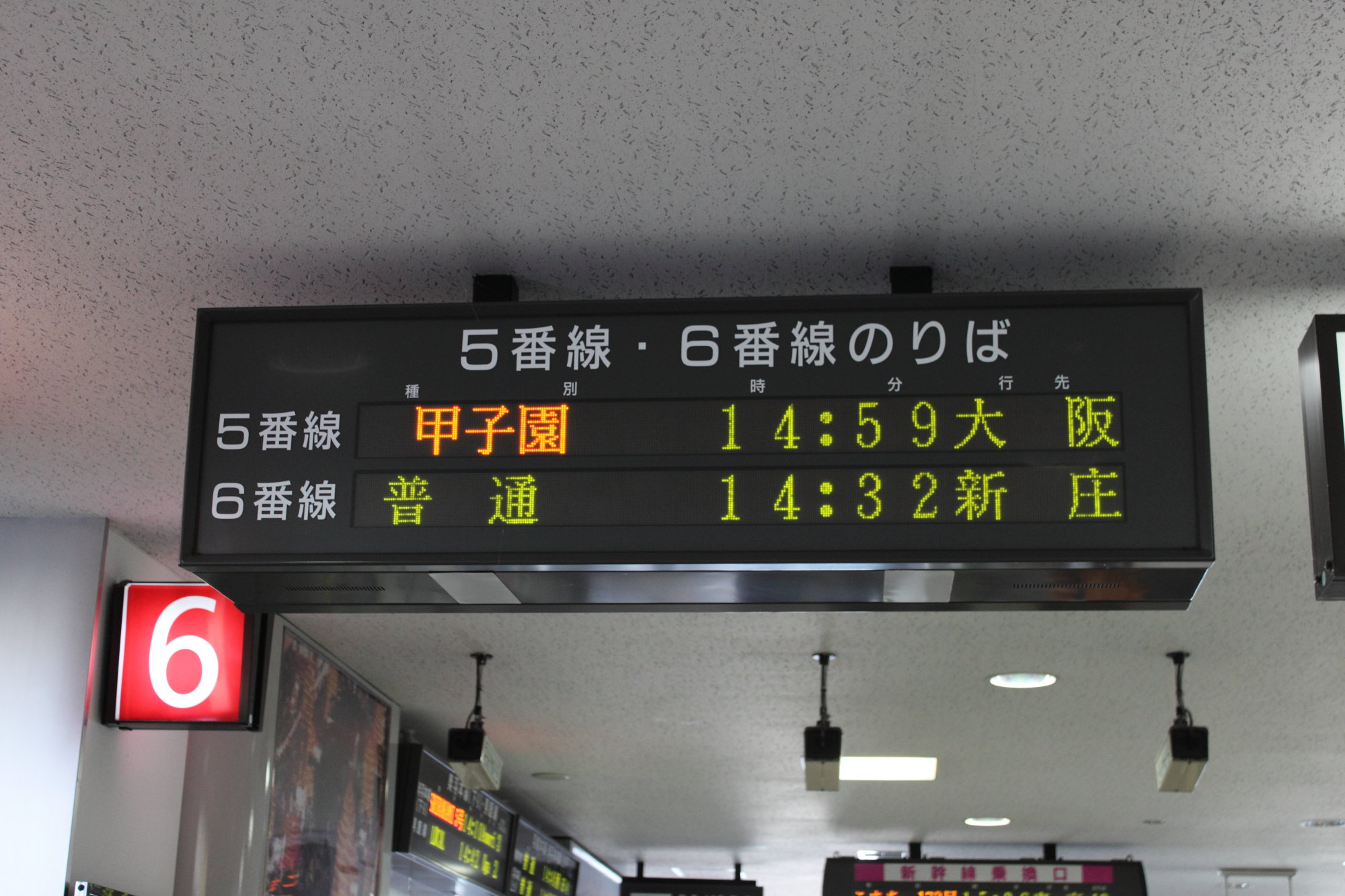 Information board at Akita Station shows the time of the train for Noshiro High School of Commerce, which in 2011 participated in the annual High School Baseball Tournament at Koshien Stadium in Hyogo